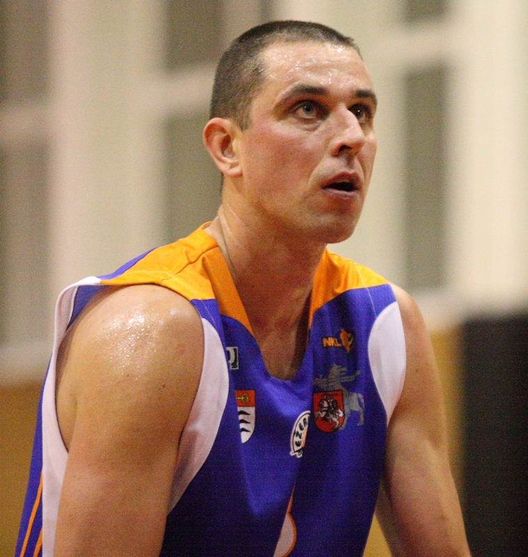 Kęstutis Šeštokas playing for Ežerūnas - karys Molėtai.